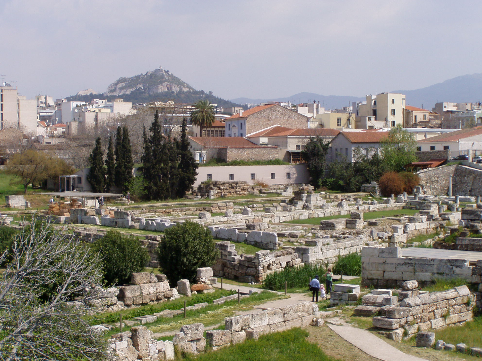 This is the Kerameikos in Athens.